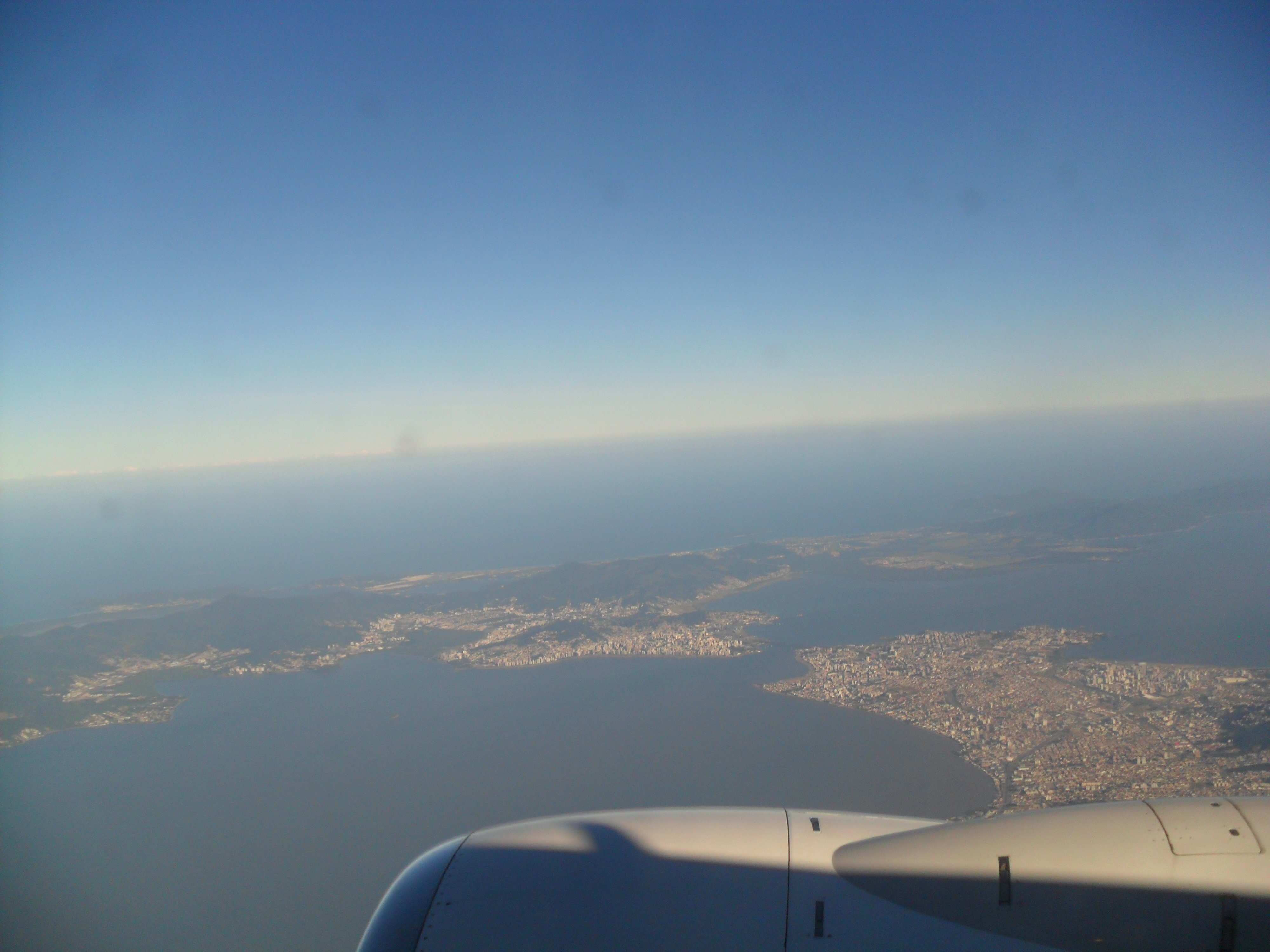 strait01